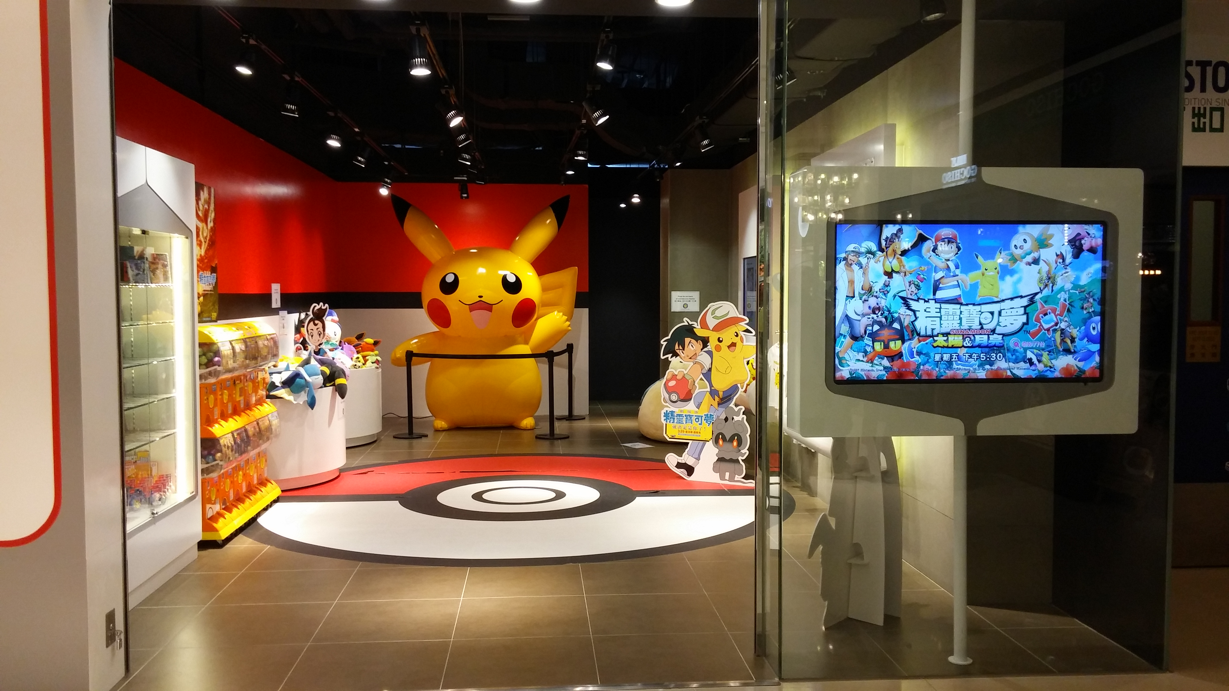 Pokémon Hub, an official Pokémon retail store in K11, 18 Hanoi Road, TST, Kowloon, Hong Kong from 2017.12.15 to 2018.06.25.